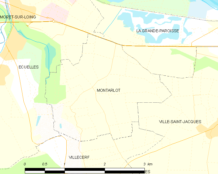 Map of French municipality Montarlot